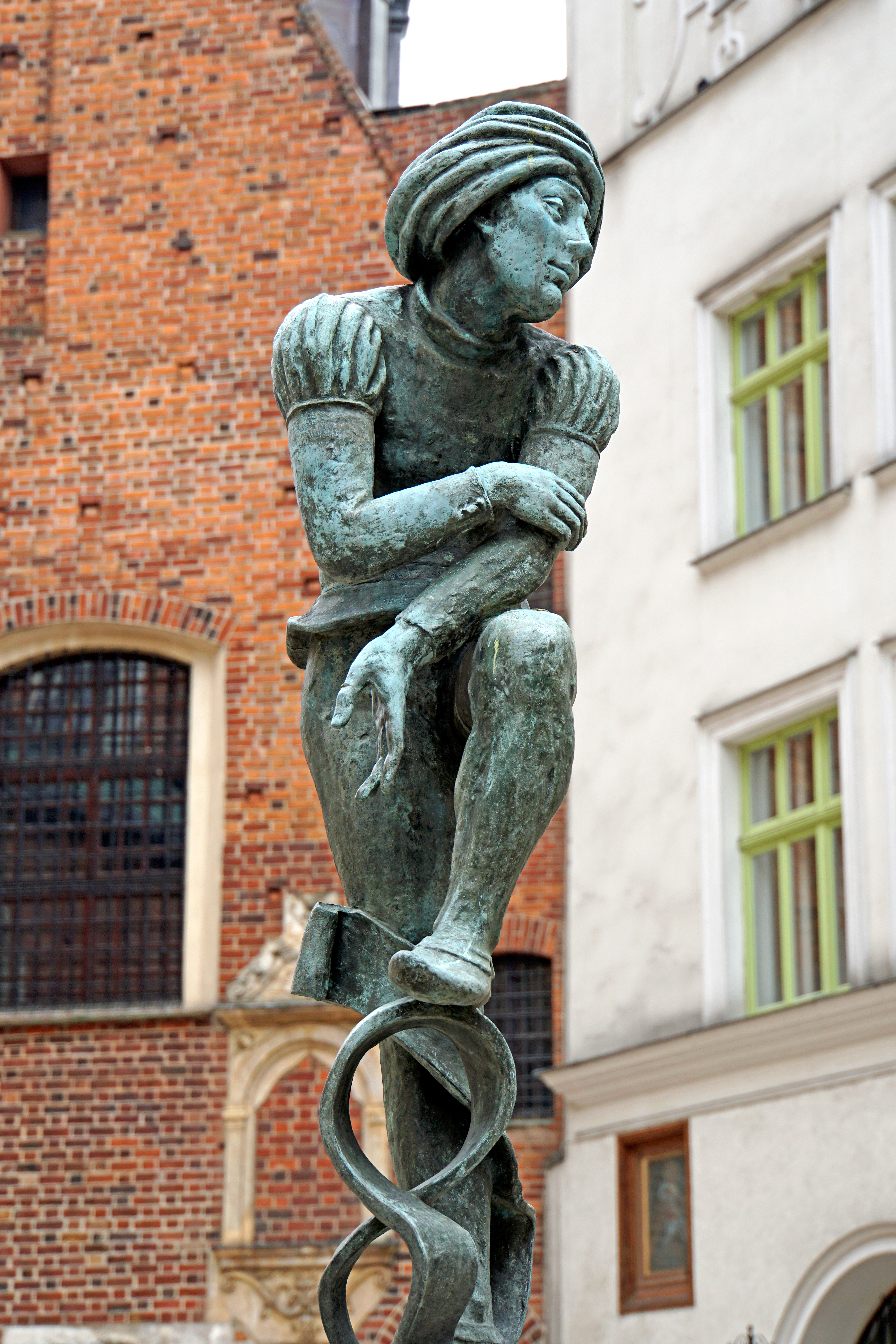 PLEASE, NO invitations or self promotions, THEY WILL BE DELETED. My photos are FREE to use, just give me credit and it would be nice if you let me know, thanks. A bronze statue of a poor student near St Mary's Basilica.